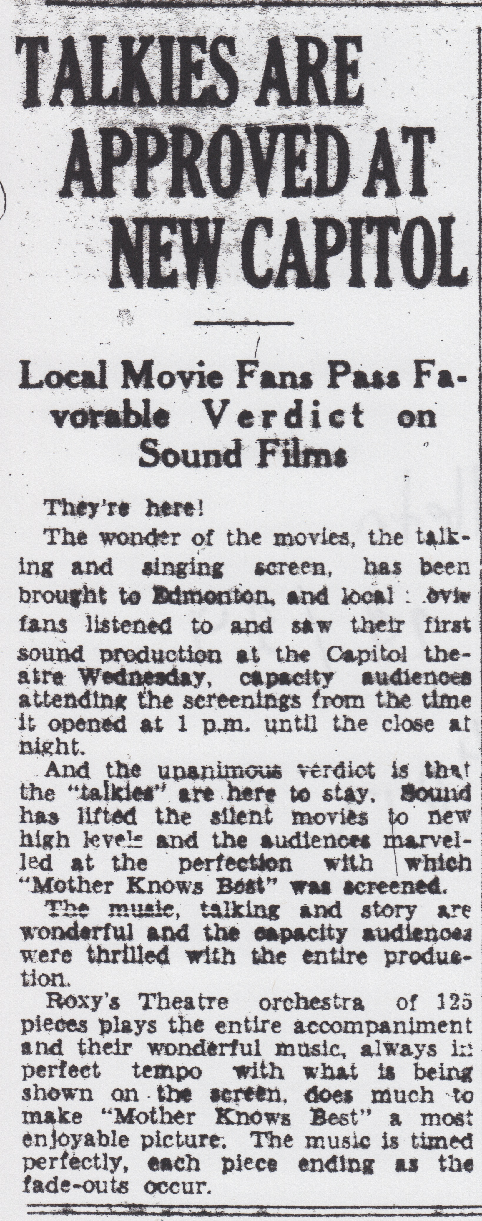 Clipping from the Edmonton Bulletin, March 28, 1929 page 13. Description of first talkies exhibited in Edmonton. They were shown at the Capitol Theatre on Jasper Avenue.